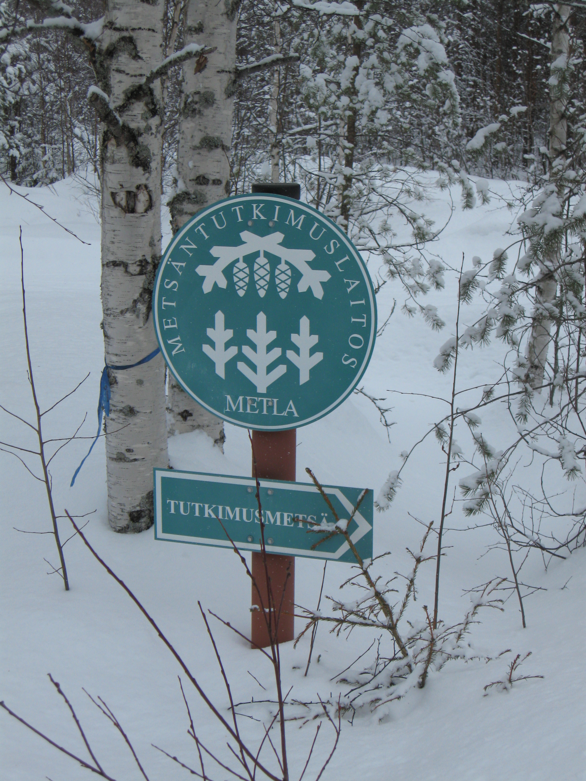 A sign indicating a research forest of the Finnish Forest Research Institute (Metla) in Pälli, Muhos, Finland.